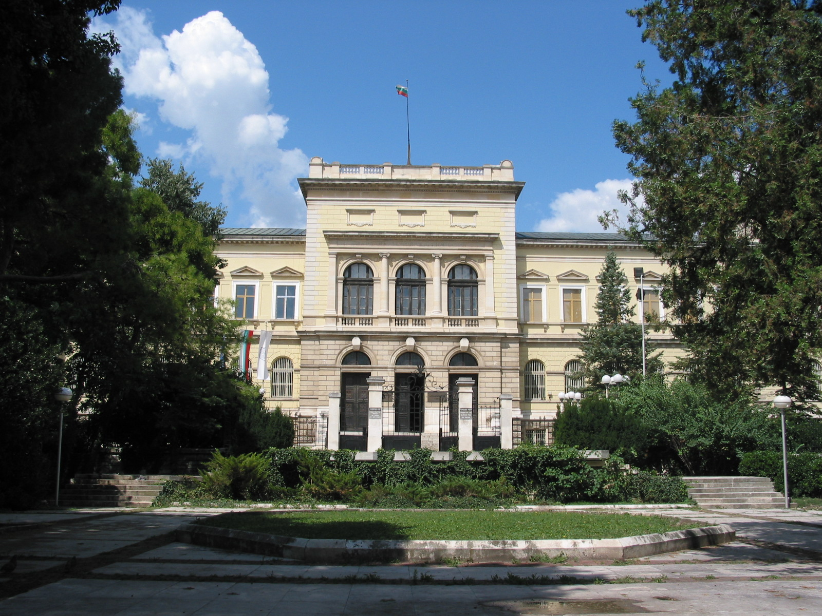 Archeology museum, Varna, 2005 selfmade photo